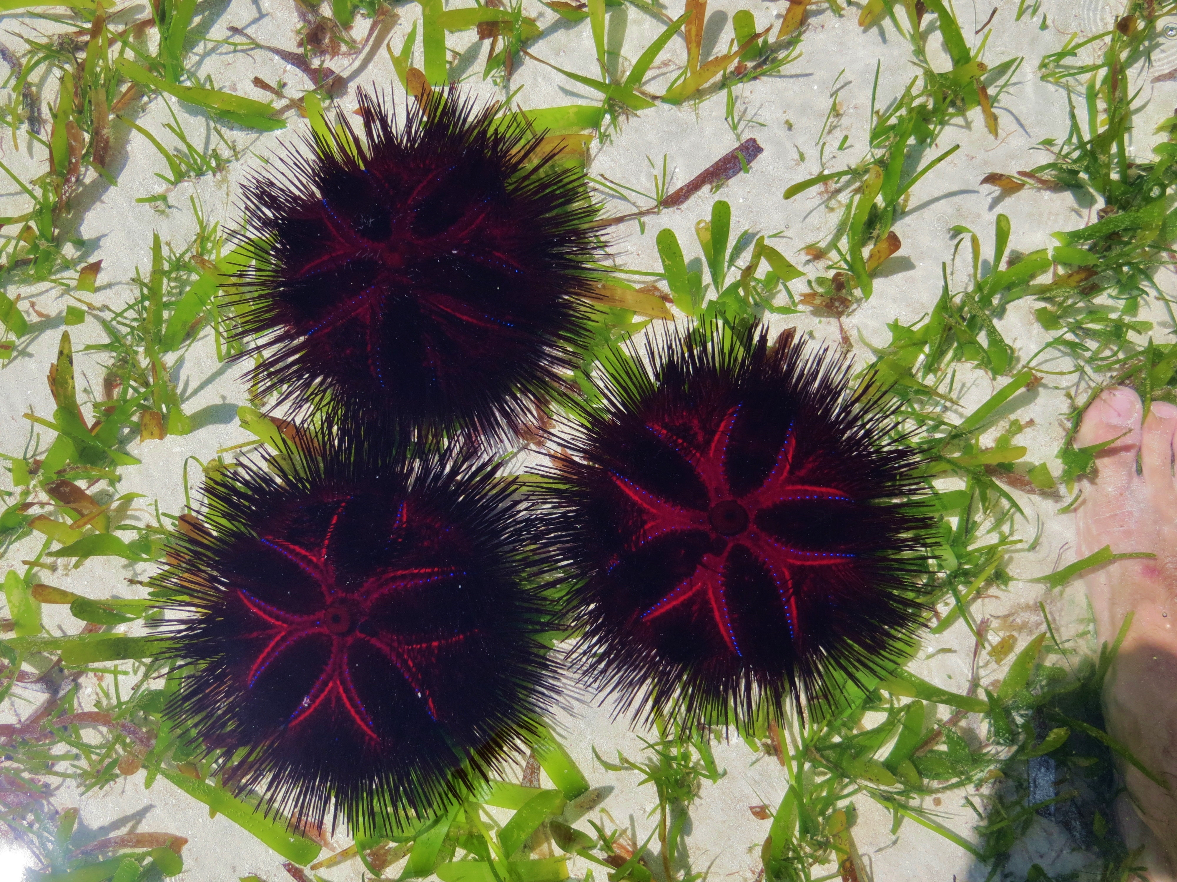 A group of Astropyga radiata (red sea urchin) seen in Nyali, Kenya.